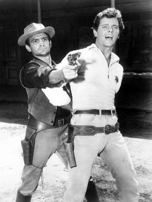 Photo from the television program Lawman. Deputy Johnny McKay (Peter Brown) is held hostage by actor Richard Bakalyan, whose character plans on robbing the Laramie bank.